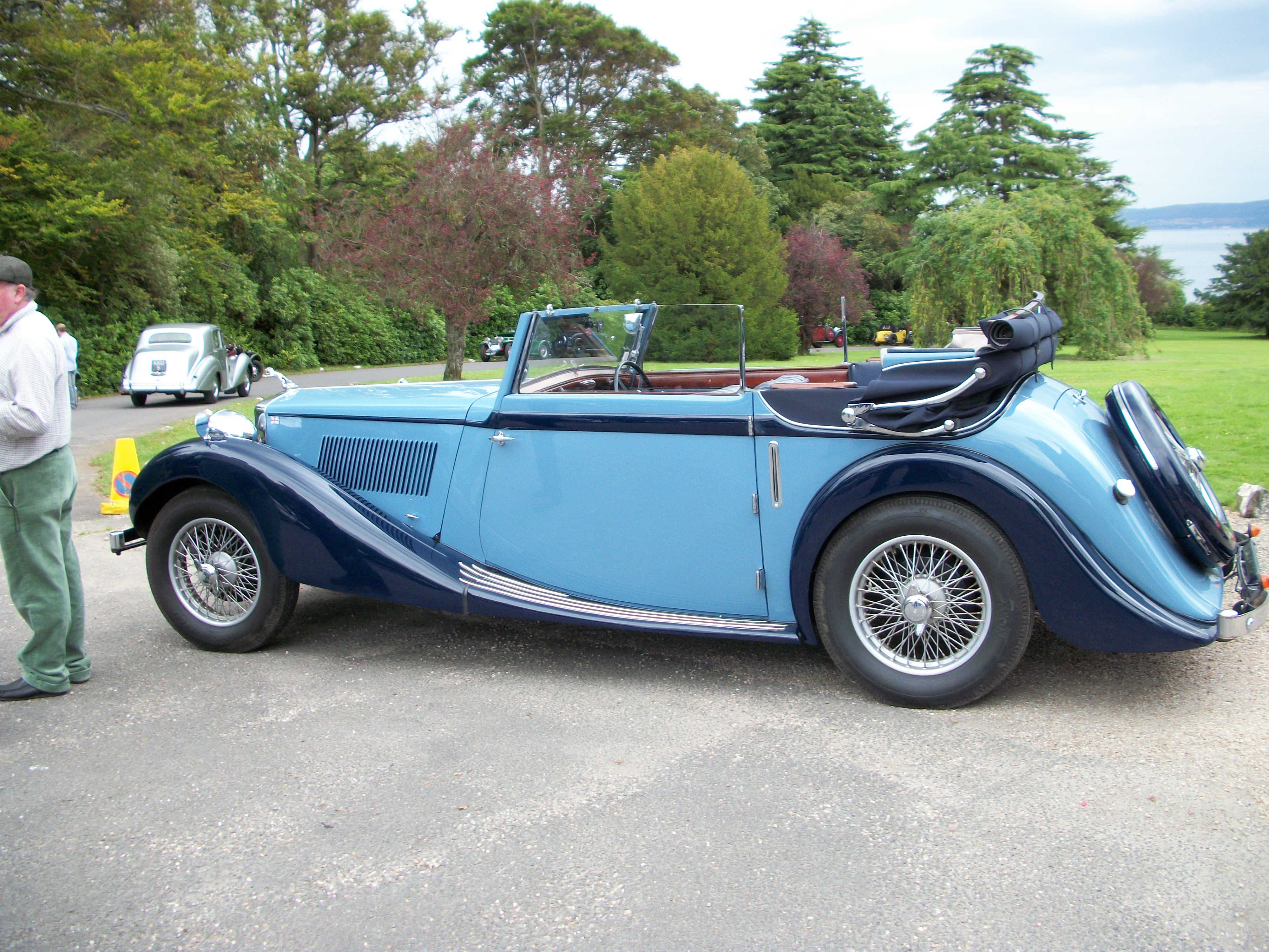 1937 MG SA Tickford Drop Head Coupe